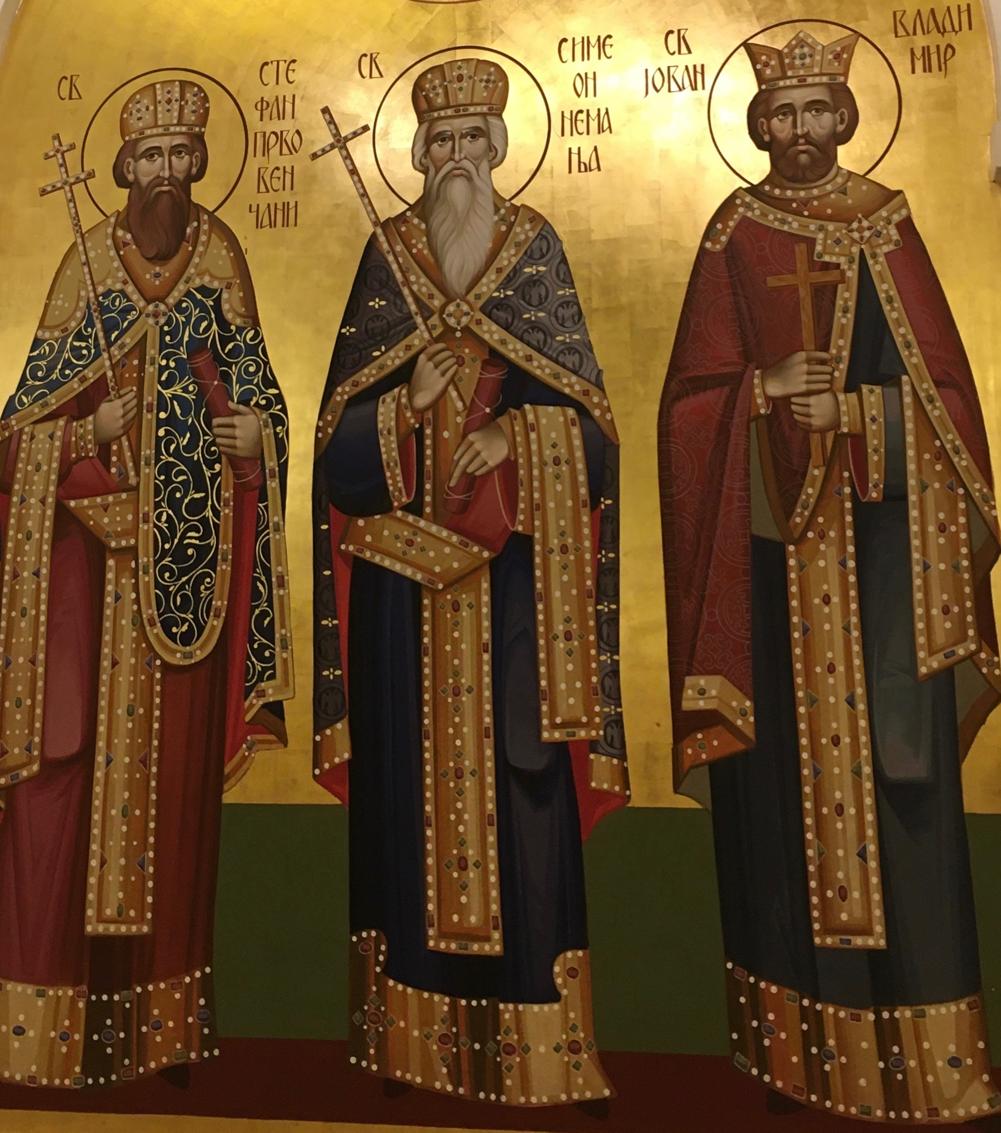 Serbian Ortodox saints (Justinian, Stefan the First-Crowned, st. Simeon Nemanja, st. Jovan Vladimir) parto of a fresco in the crypt of St.Sava temple, Beograd, Serbia.